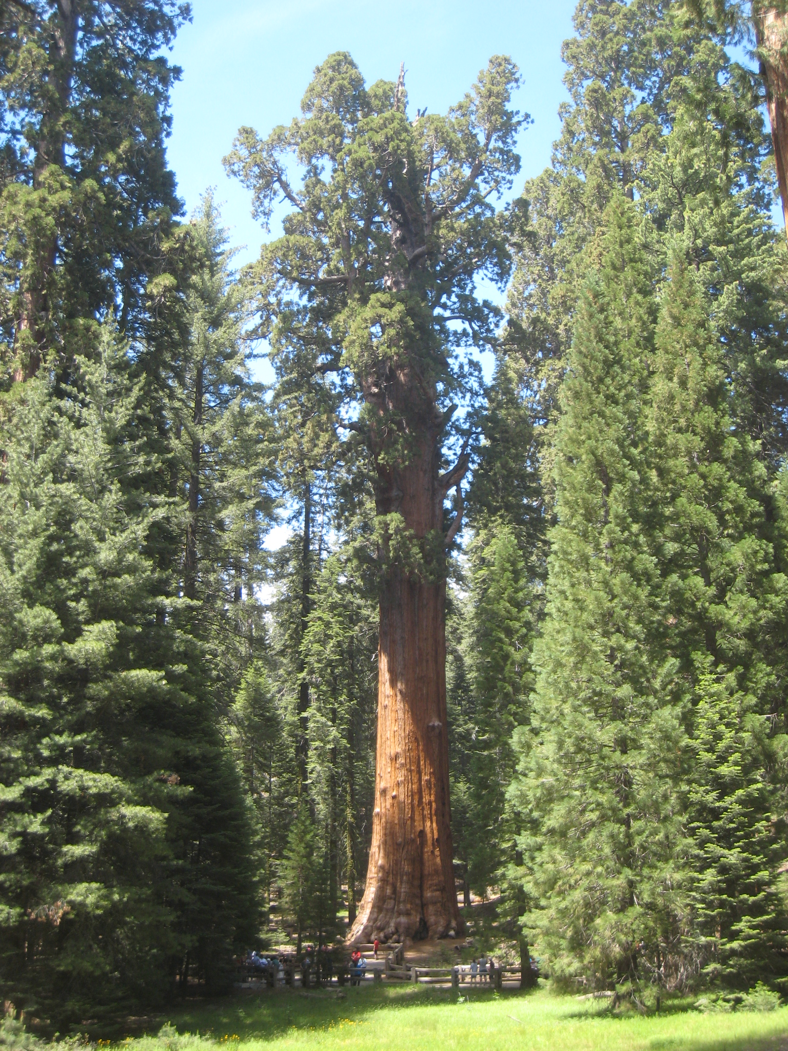 General Sherman Tree